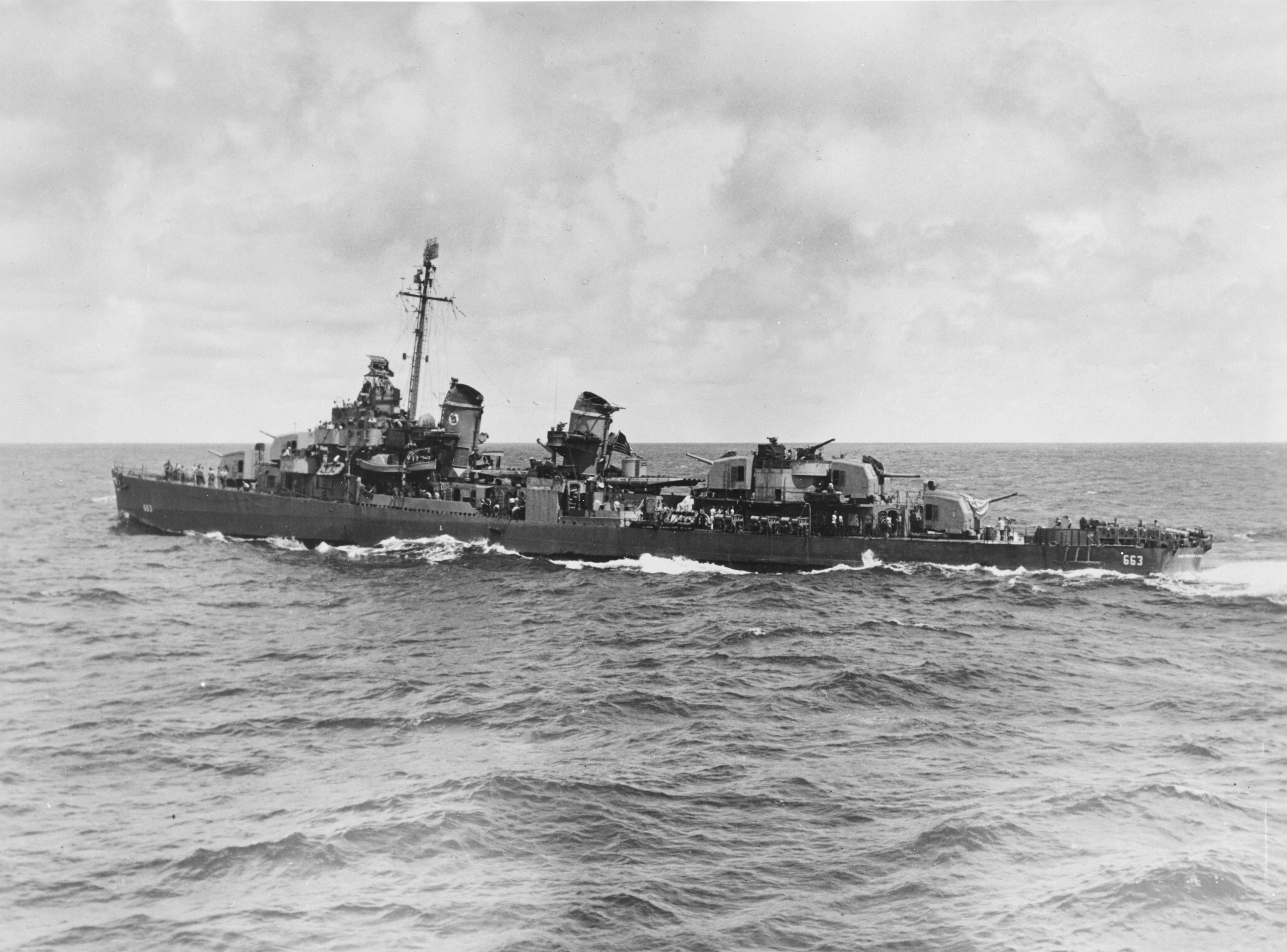 The U.S. Navy destroyer USS Heywood L. Edwards (DD-663) underway in the Pacific Ocean, in 1945.